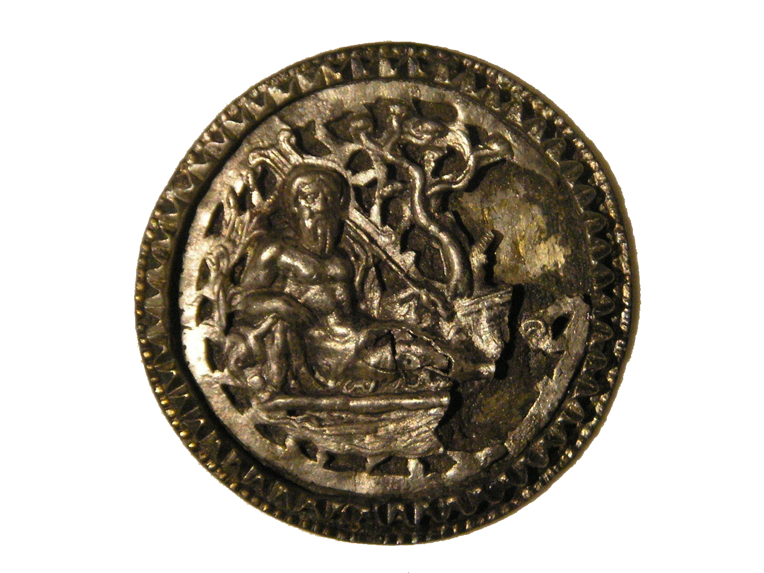 Disc brooch (Fibula) with the depiction of the river god Danuvius (Danube), 150-250 A.D. Silver, partly gold-plated.